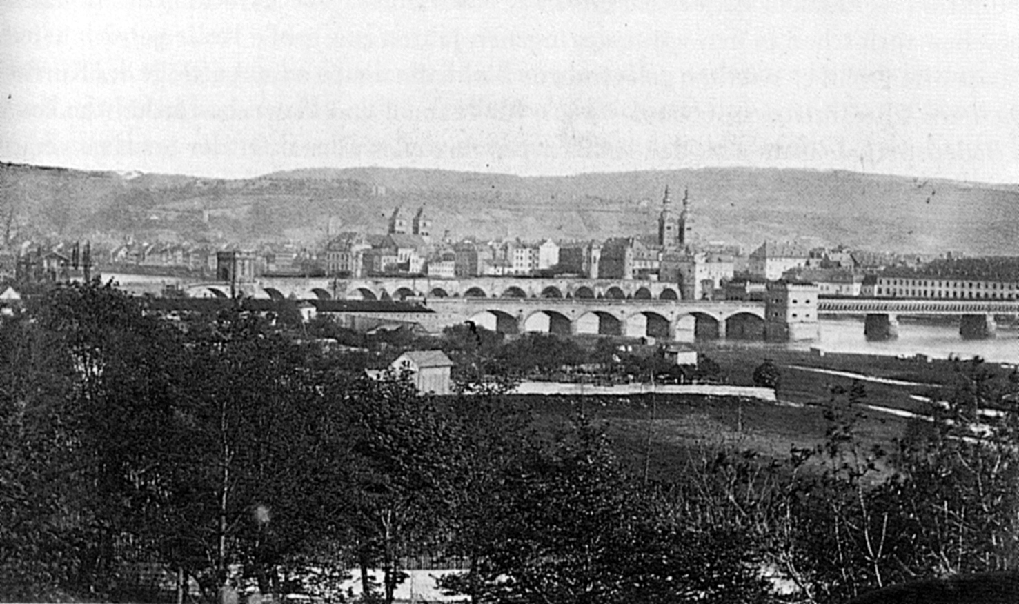 Banks of Moselle river in Koblenz